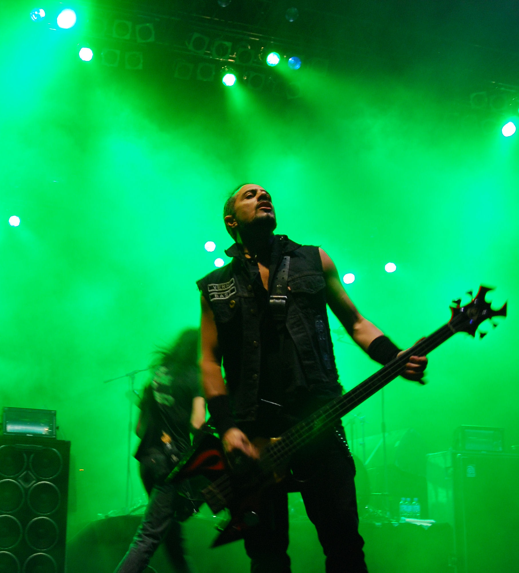 Carlos Verni "D.D." from Overkill during Metalmania 2008 festival